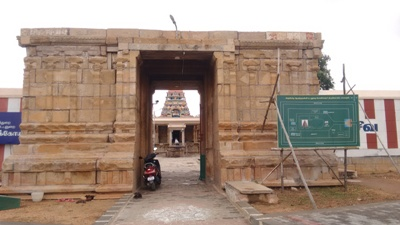 Samayapuram bojisvarar temple சமயபுரம்போஜீஸ்வரர் கோயில்